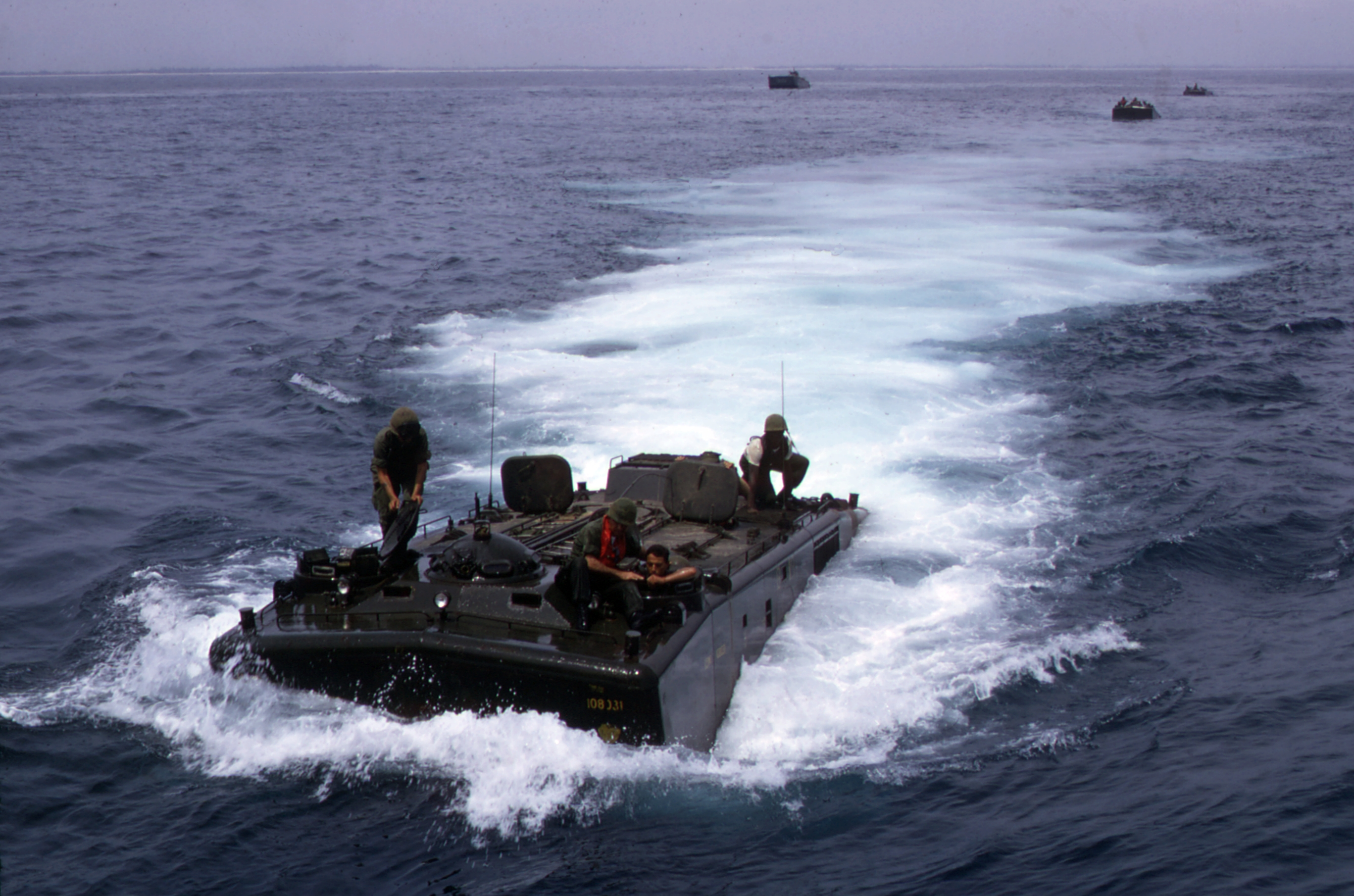 U.S. Marine Corps LVT-5 Amtracs coming into an amphibious transport dock ship (LPD) during training exercises involving the 1st Amphibious Tractor Battalion, 19 April 1968.